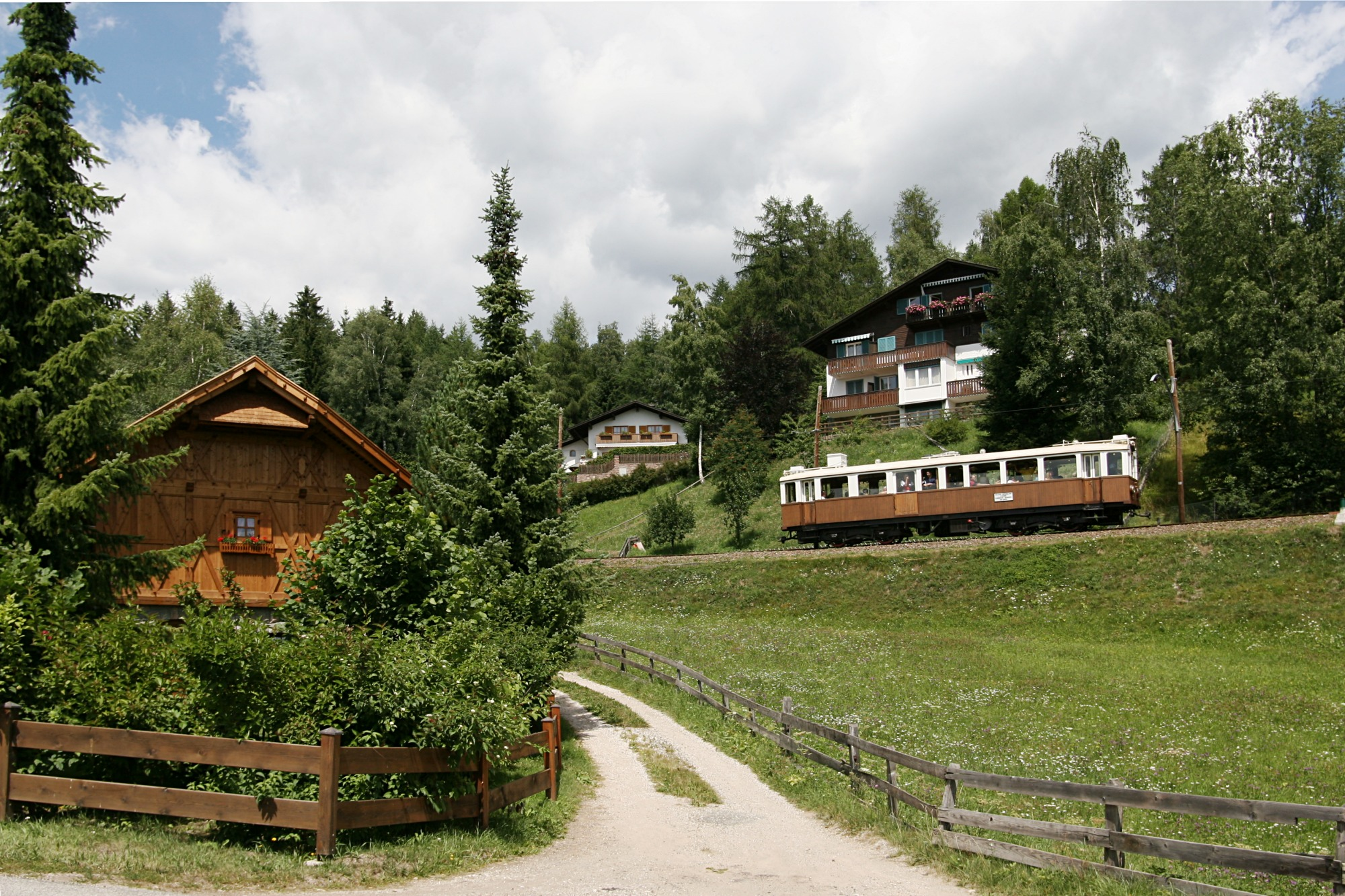 Rittnerbahn railcar near Wolfsgruben halt.